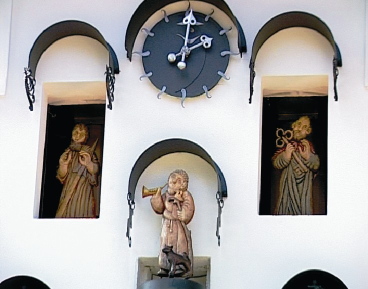 Horologe Kr.Údolí